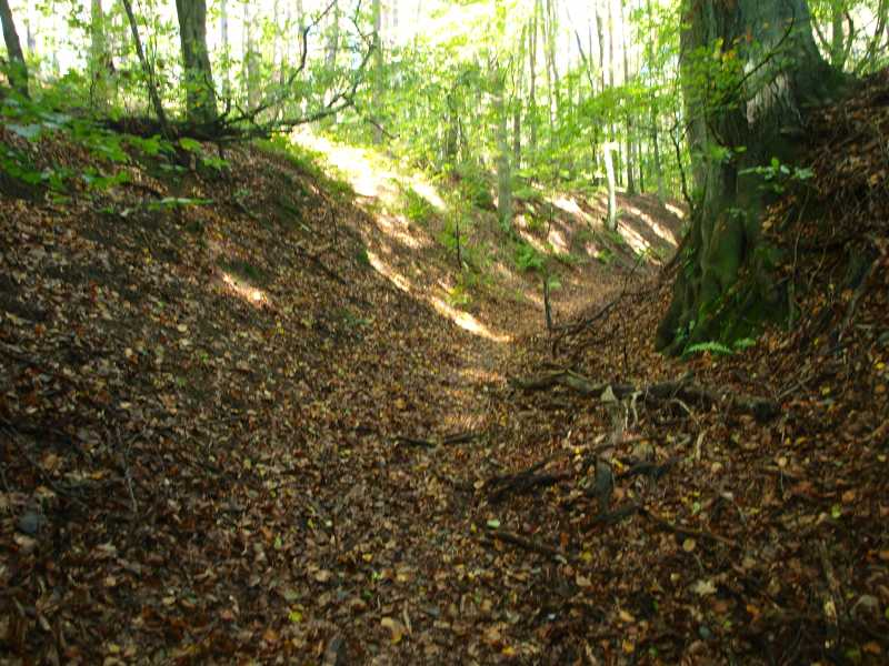 The ravine carved by the water